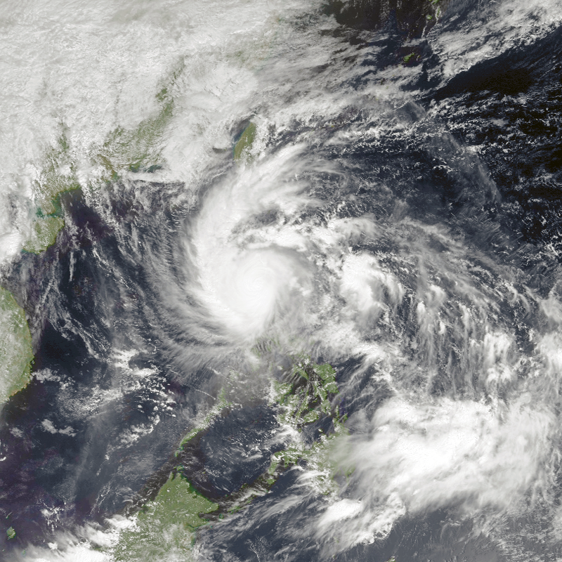 Typhoon Nalgae after making landfall over The Philippines